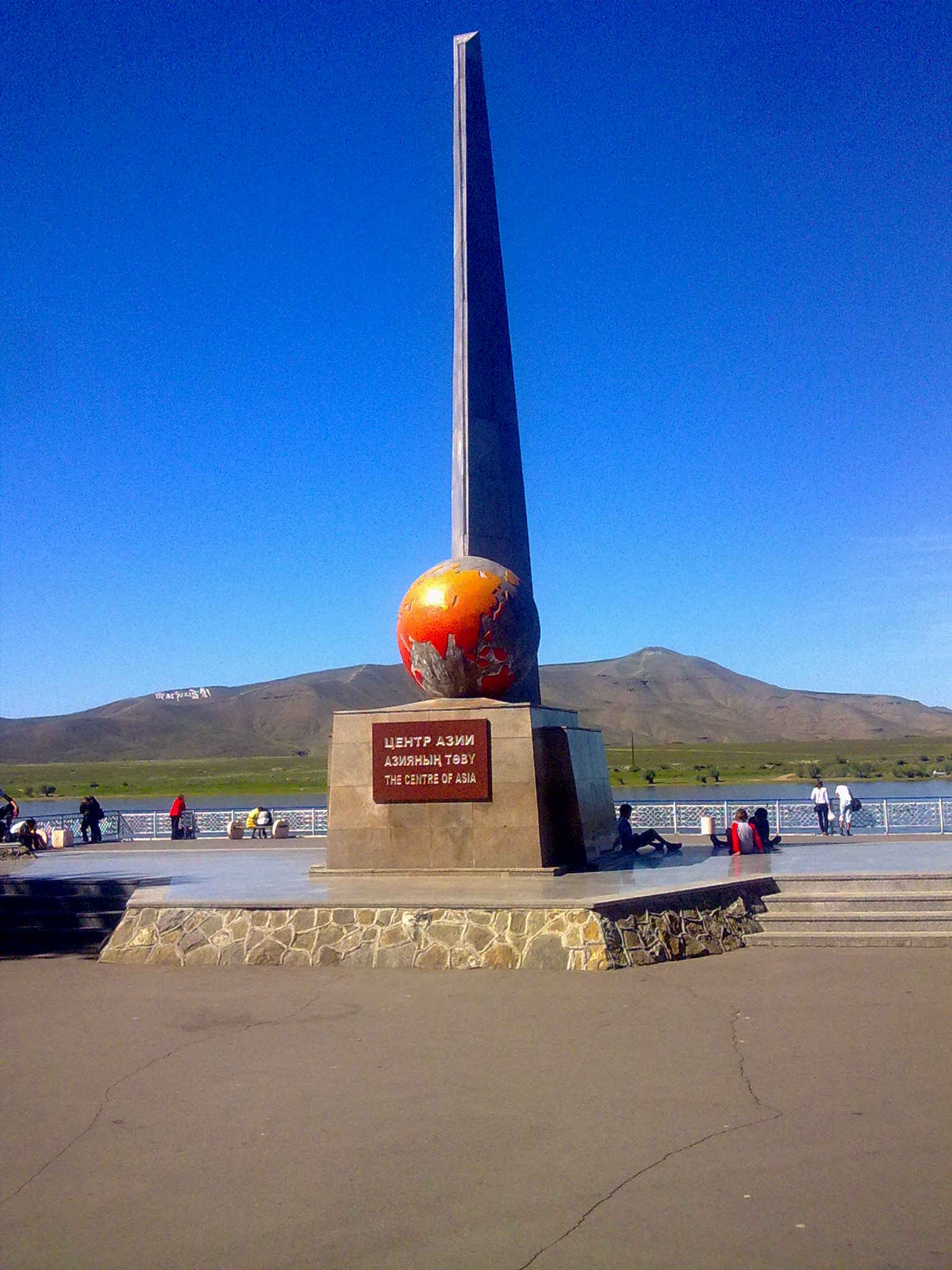 "Center of Asia" obelisk. Kyzyl city, Tyva, Russia. The Tibetan mantra ཨོཾ་མ་ཎི་པདྨེ་ཧཱུྃ Om mani padme hum can be seen on a hillside in the background on the left.